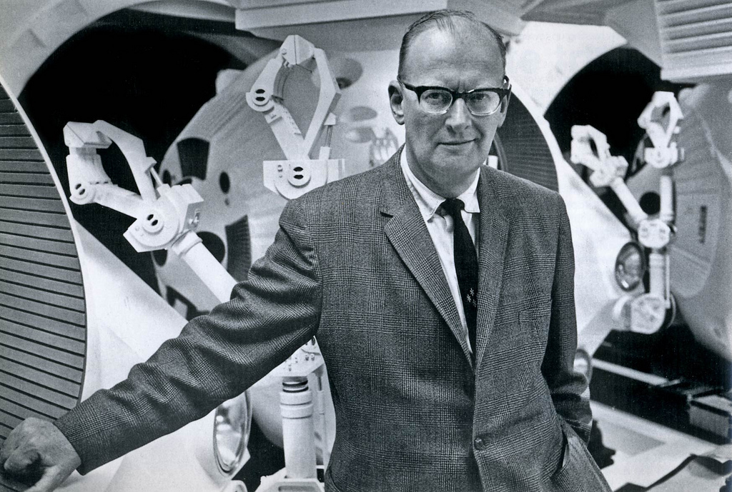 British science-fiction author Arthur C. Clarke in 1965